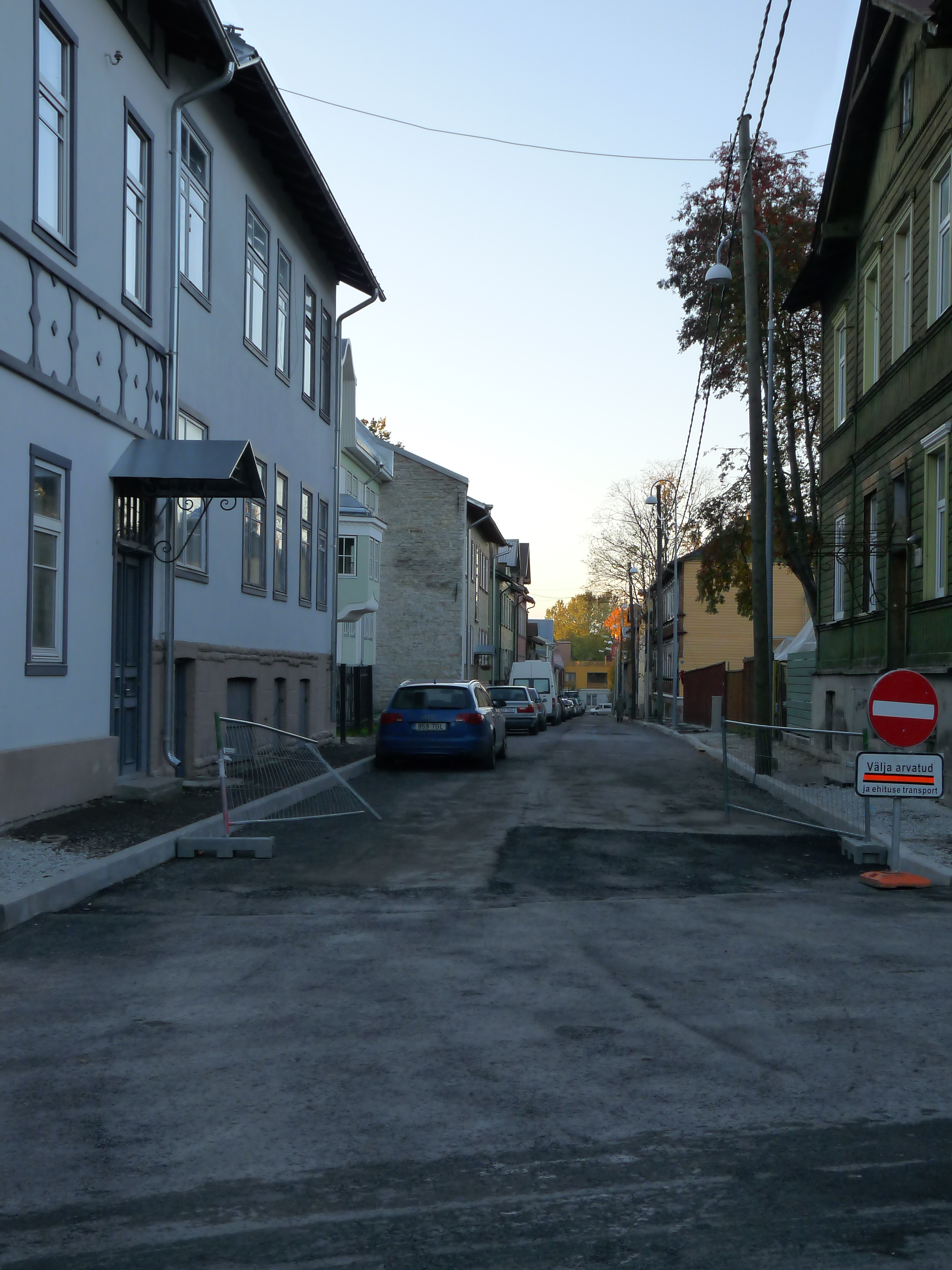 Köie street in Tallinn, Estonia.